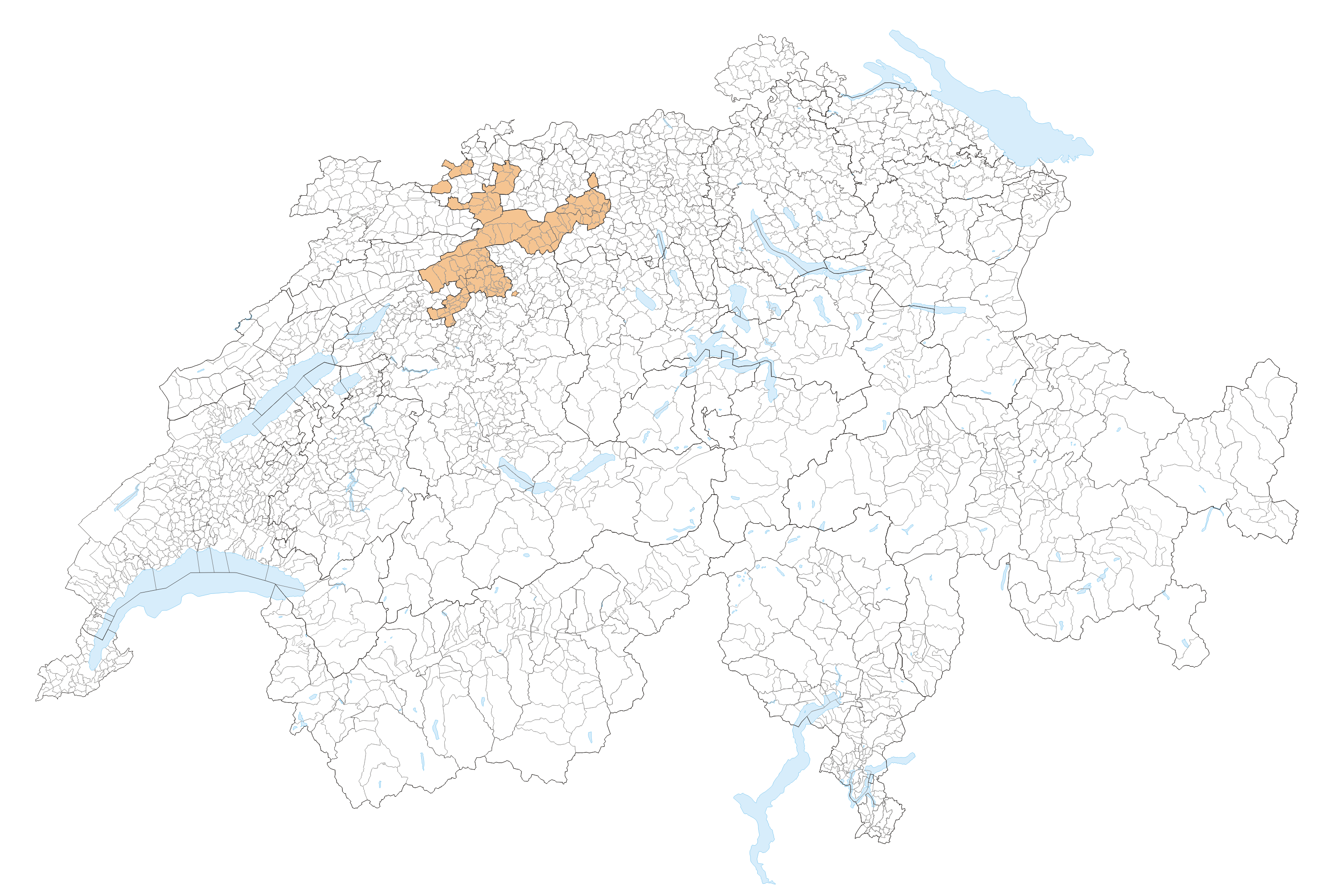 Kanton Solothurn